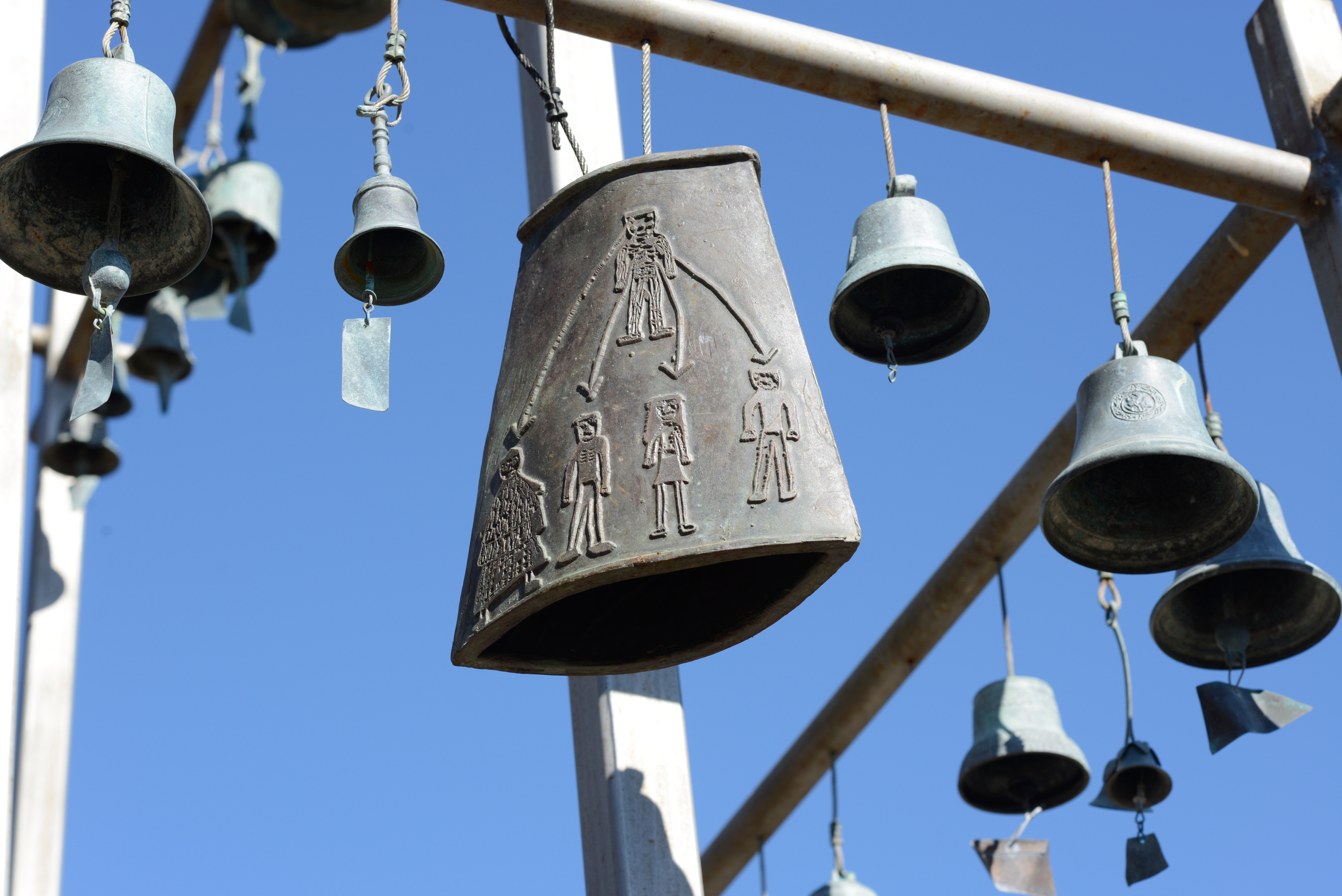 A photo of a part of the Nicholas Green Memorial showing one of the more important bells